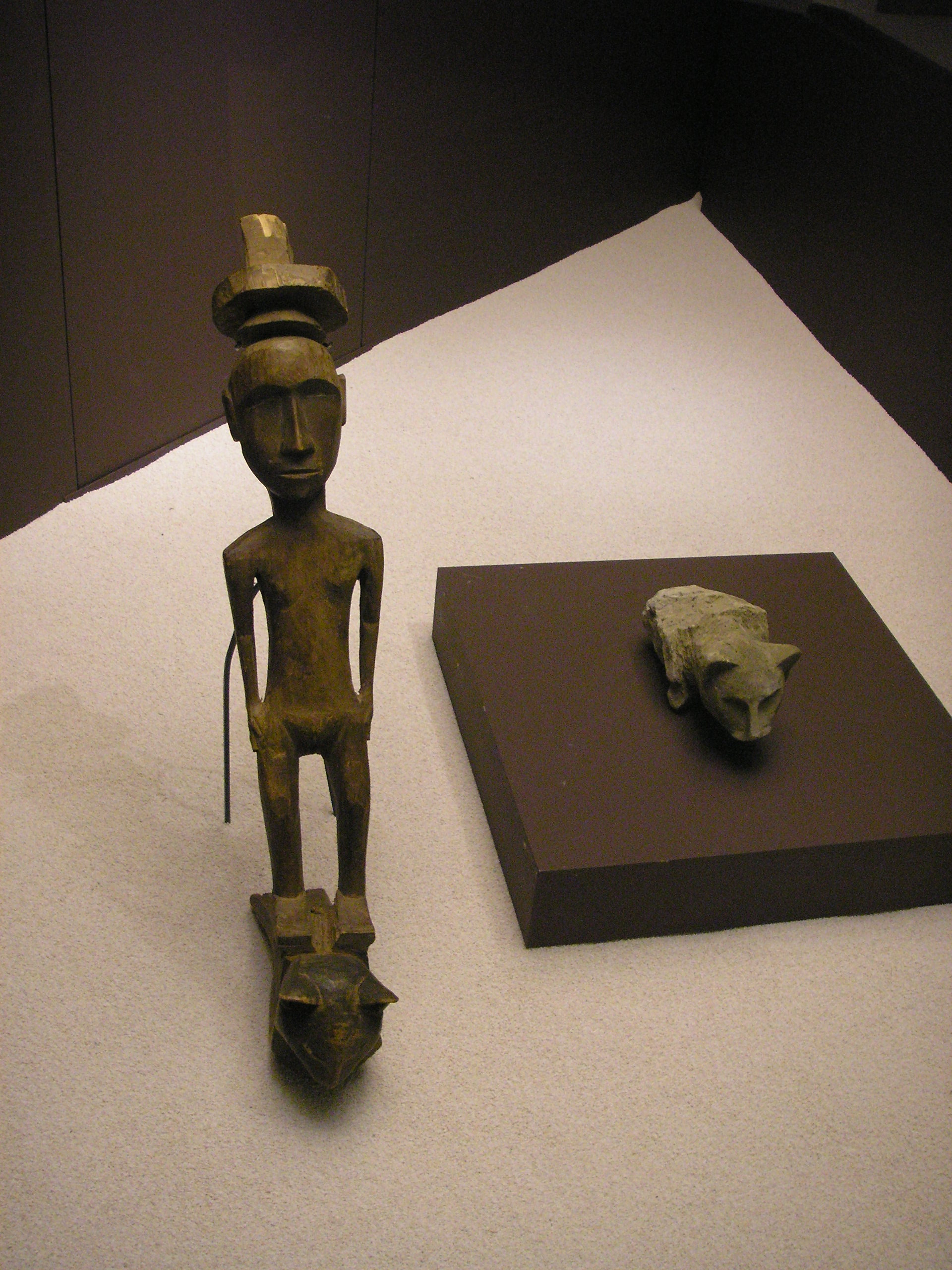 The statue with the man is a hook for windows, from the island of Yap. Item is from the Collection Zembsch, 1884. The second piece is a head of cat made from sandstone, also from Yap. Item from the Collection Senfft, 1902. Among anthropologists who visited the Micronesian islands of Yap in the beginning of the 20th century, the plastic art of the islanders found little acknowledgement. The German Wilhelm Müller for example, who visited Yap in 1909, passed the judgement: "The artistic gift of the people of Yap is on a relatively low level.". Today we know that judging the aesthetics of non-European societies measured by western standards usually lead to the wrong conclusions. It can be assumed, that the objects tells us more about the extent of European influence on Yap, than about the traditional Yapese art forms and meanings: Cats were introduced by the Europeans to Yap at the end of the 19th century. Possibly, representations of the animals were made primarily for the sale to Europeans. However, the carved figure with one head in the shape of a cat and the other in the shape of a man was made for own purposes: It is a hook, which served to to keep open windows and doors of houses. Both items are at the Ethnologisches Museum, Berlin-Dahlem.